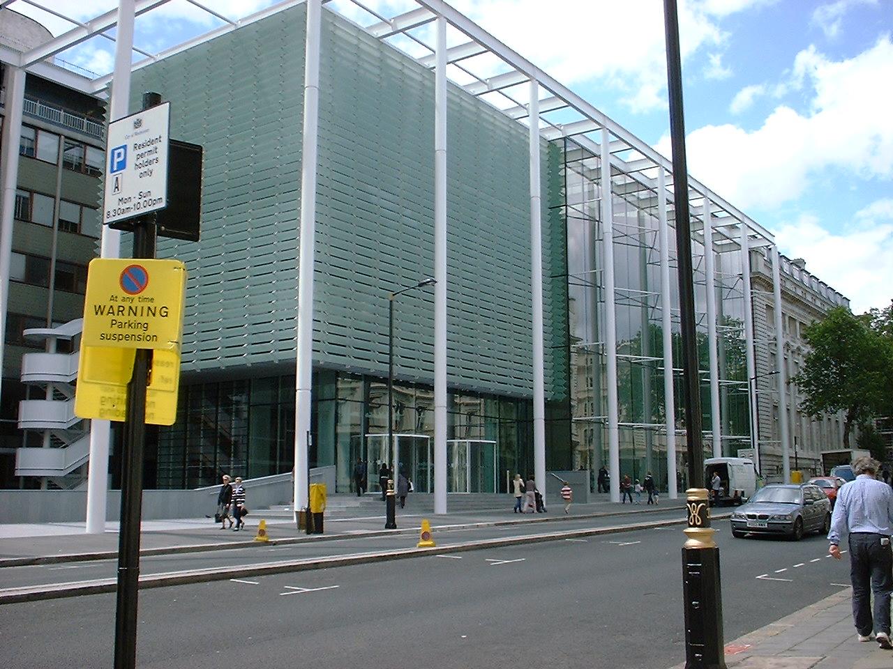 The Tanaka Business School, the main entrance to Imperial College London, viewed from across Exhibiton Road.